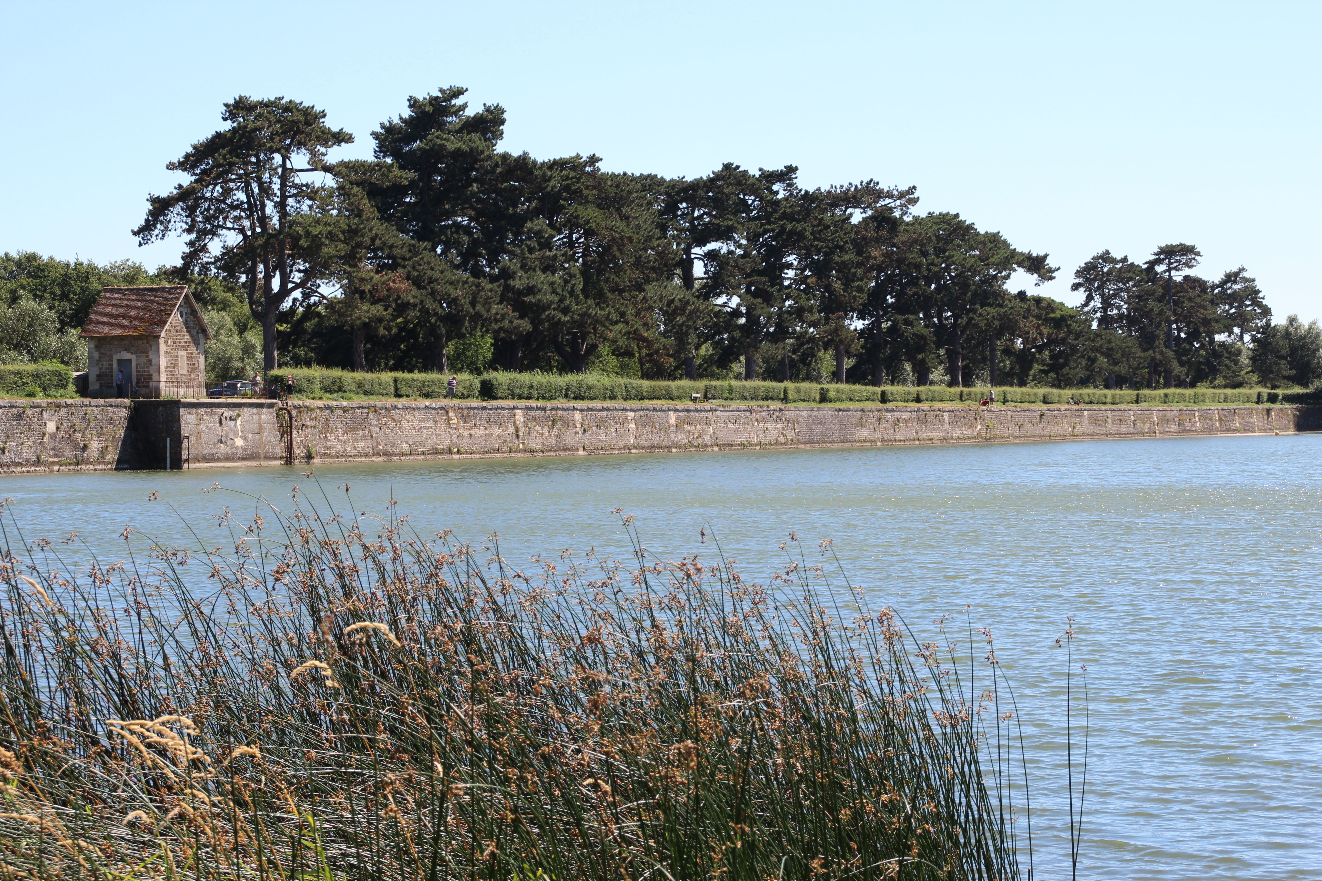 Saint-Quentin-en-Yvelines leisure center in Montigny-le-Bretonneux, France.